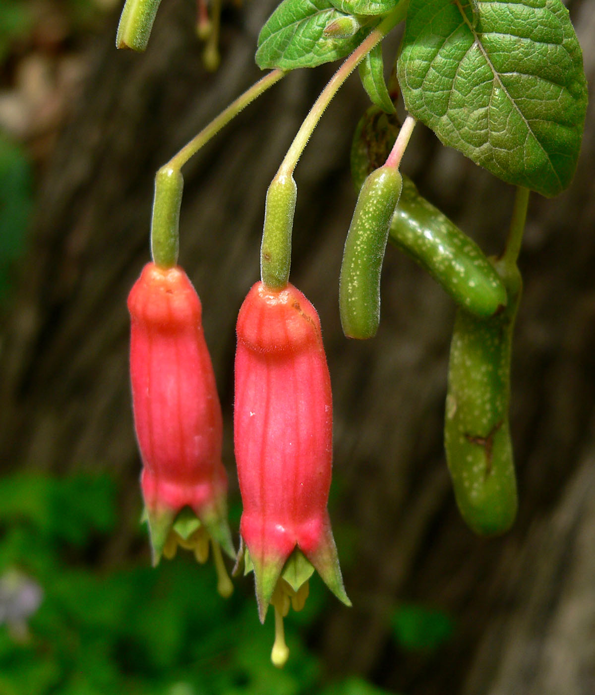 Fuchsia splendens at the San Francisco Botanical Garden